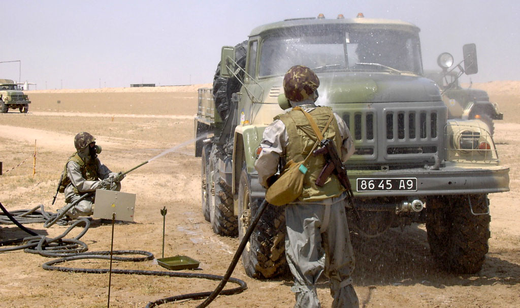 CAMP ARIFJAN, Kuwait (Aug. 3, 2003) – Members of the Ukrainian Army’s 19th CBRN-Battalion maintaining decontamination skills in Support of Operation Iraqi Freedom at Camp Arifjan, in KUWAIT on August 3rd 2003.jpg